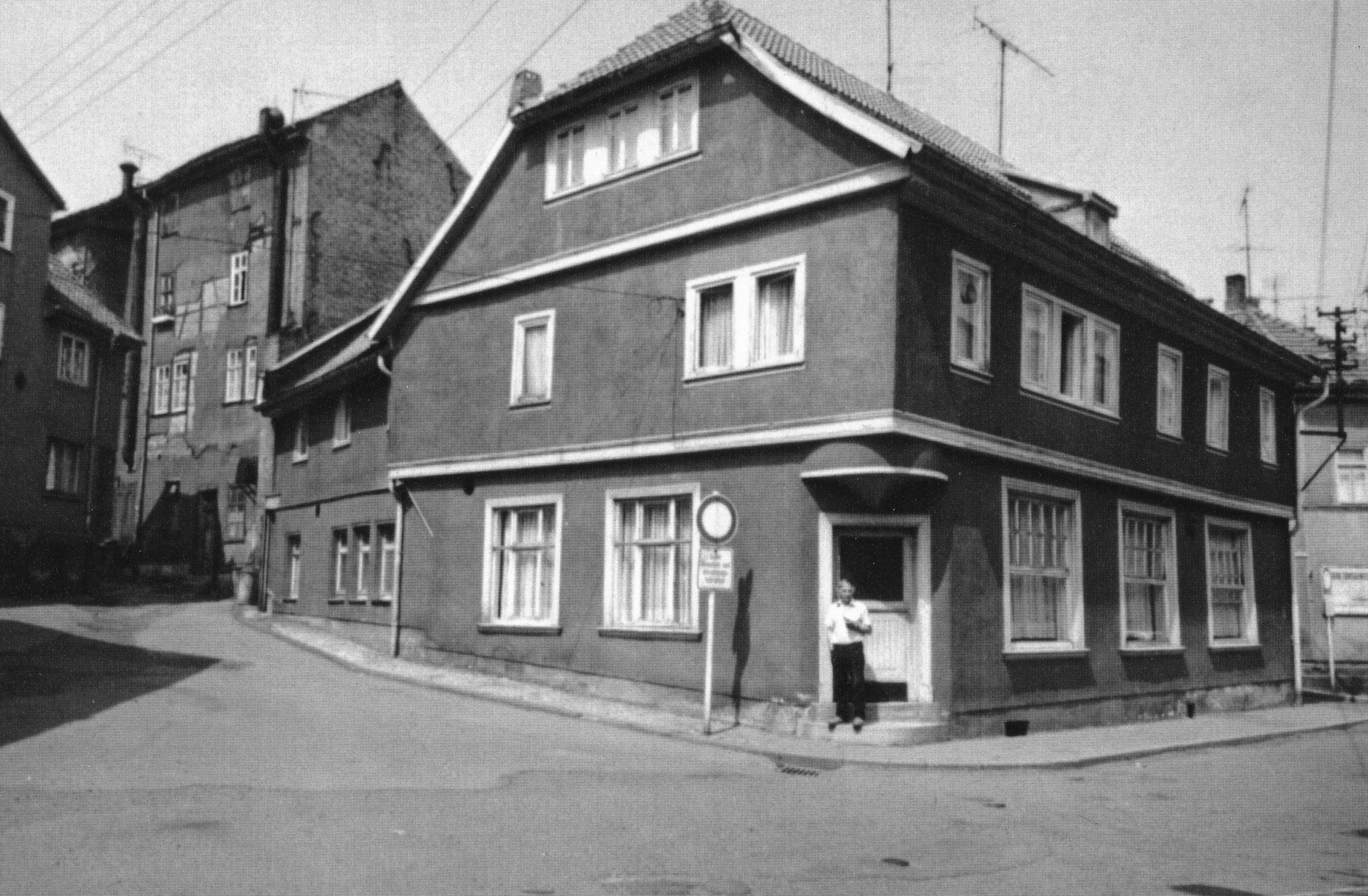 Bayerischer Hof (former restaurant) in Waltershausen, Borngasse 8. Parents' house of Christian W. Staudinger